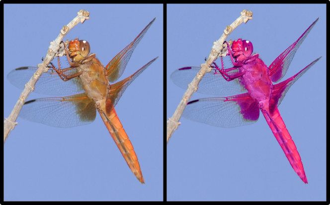 Color swapping (on a Skimmer Dragonfly) using Helicon Filter 4.50.